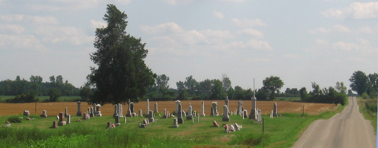 A photograph of Bethel Cemetery in Richland Township, Steuben County, Indiana, USA. The cemetery is one of the few features of this thinly populated township. Bethel Cemetery has tombstones that date to the late 1840s and is one of the earliest cemeteries of the area.